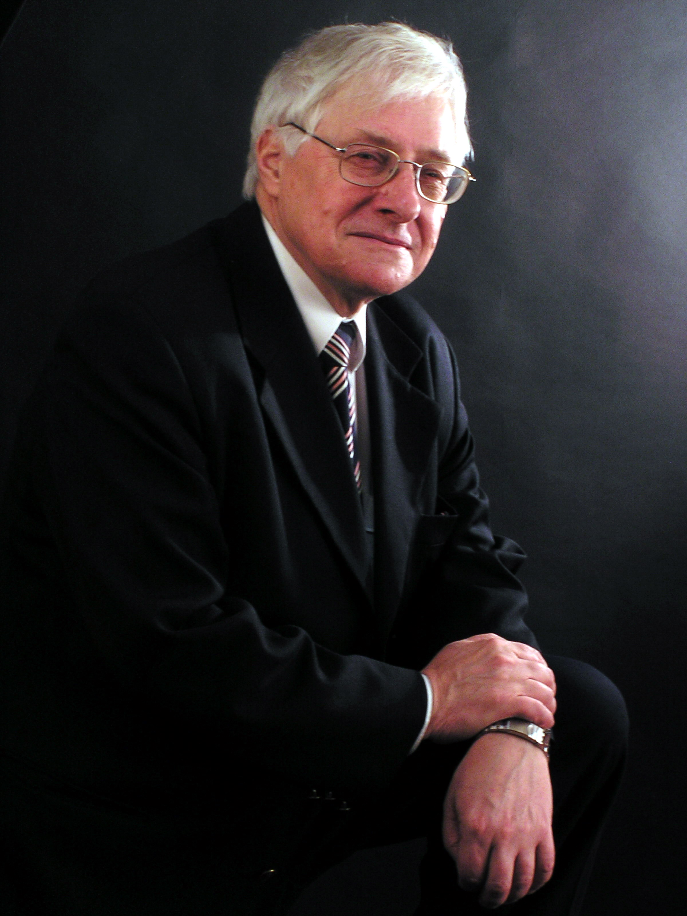 Portrait of Jerzy Vetulani